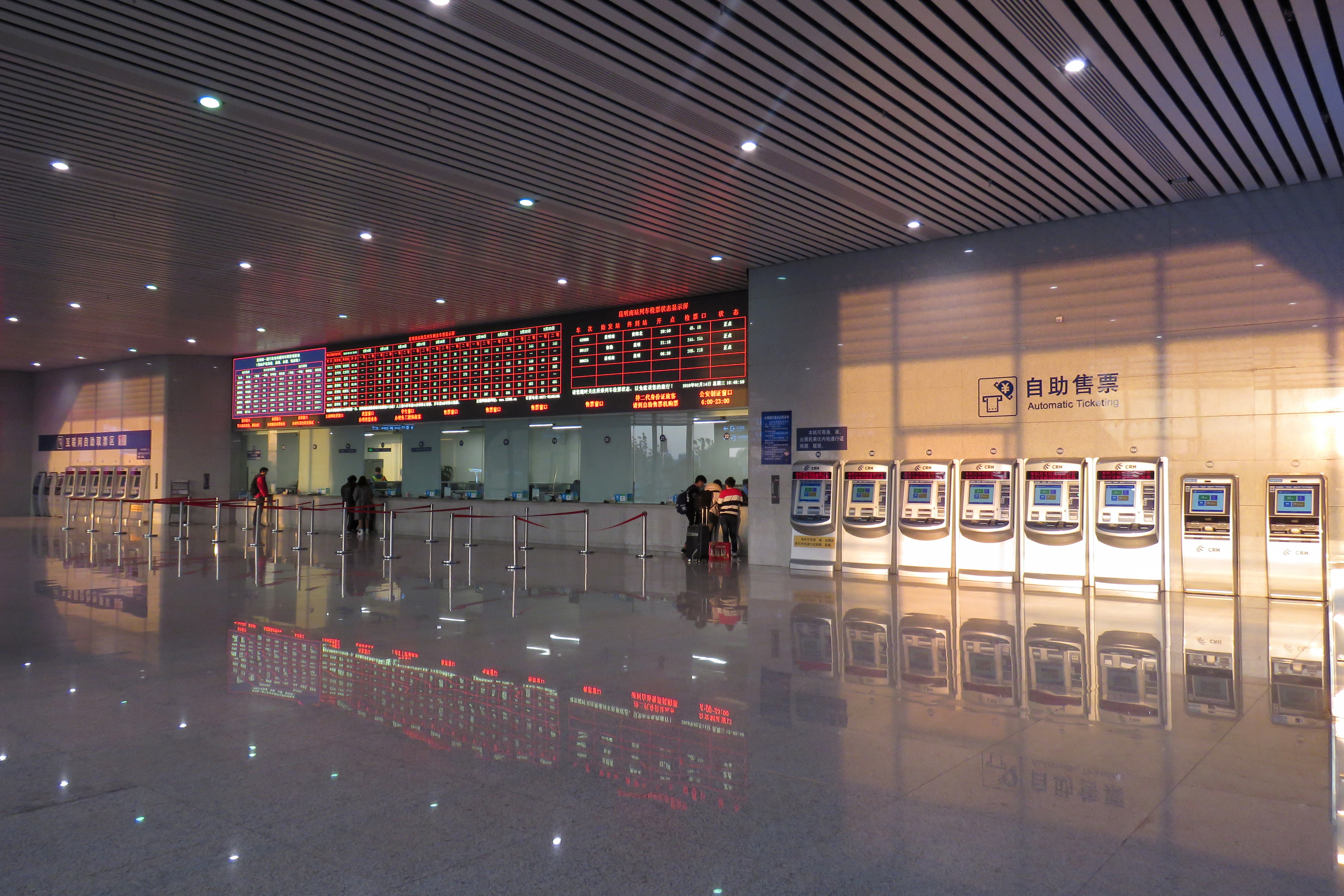 There are two TVMs supporting Mainland Travel Permit for Hong Kong and Macao Residents and Mainland Travel Permit for Taiwan Residents.